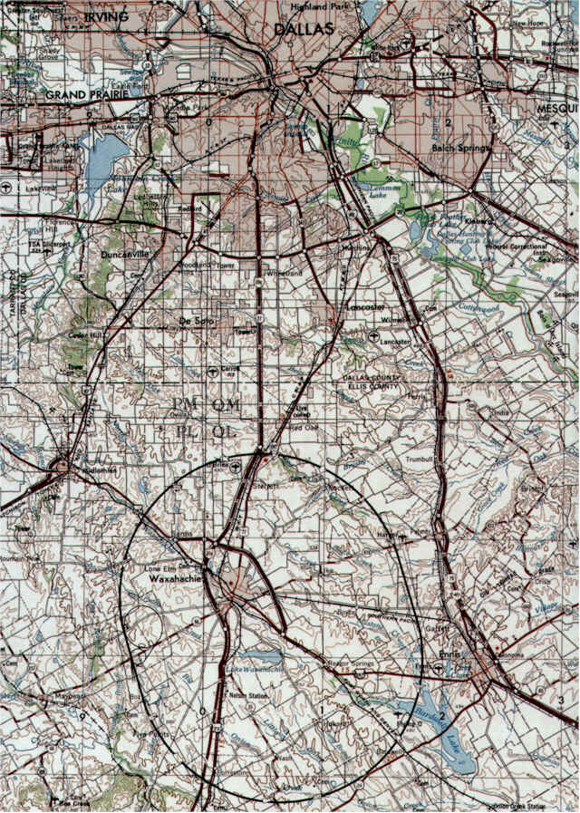 Tracing the path of the particle accelerators and tunnels planned for the Superconducting Supercollider Project. You can see the main ring circling Waxahachie.